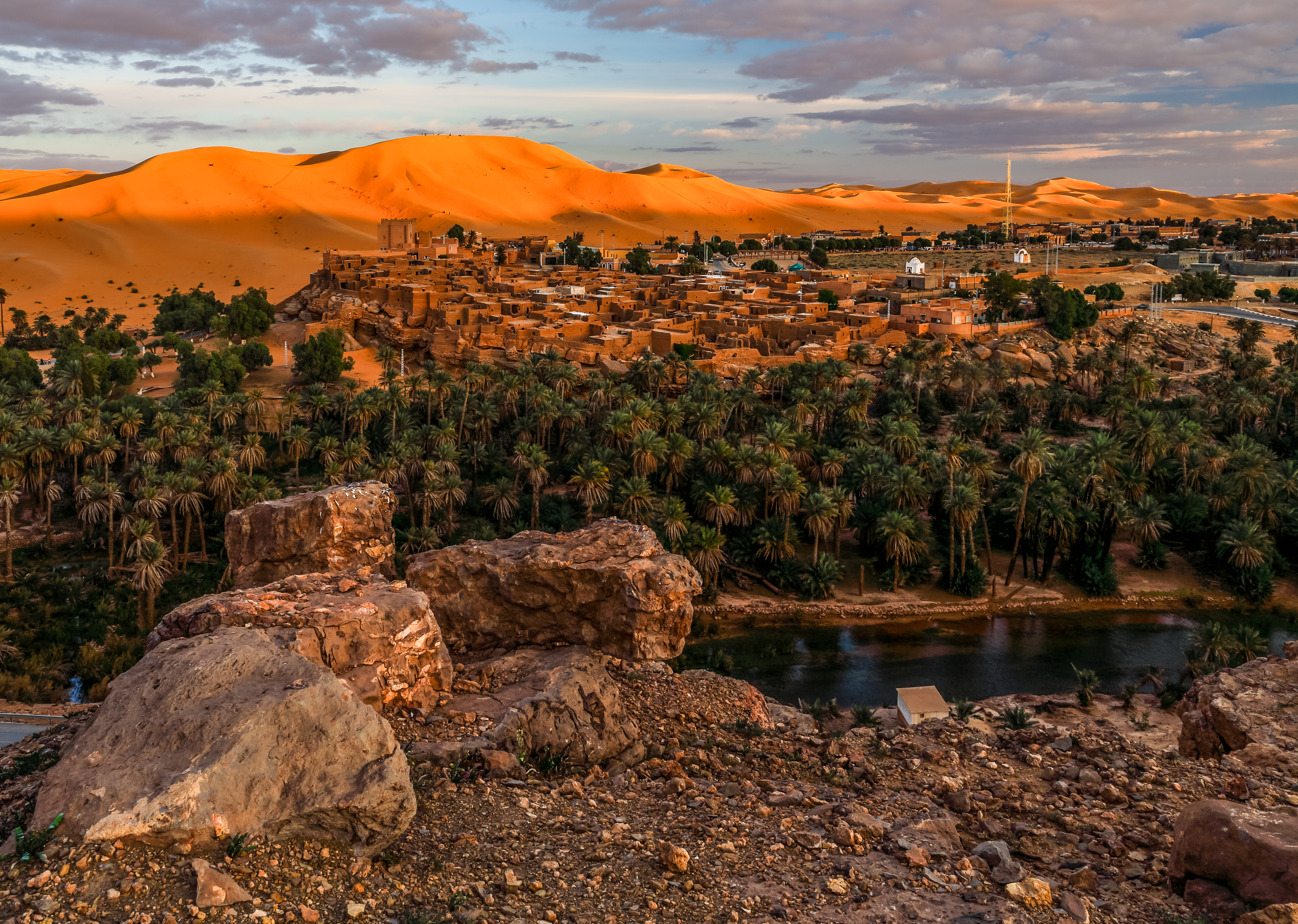 Ksar of Taghit, Bechar, Algeria.